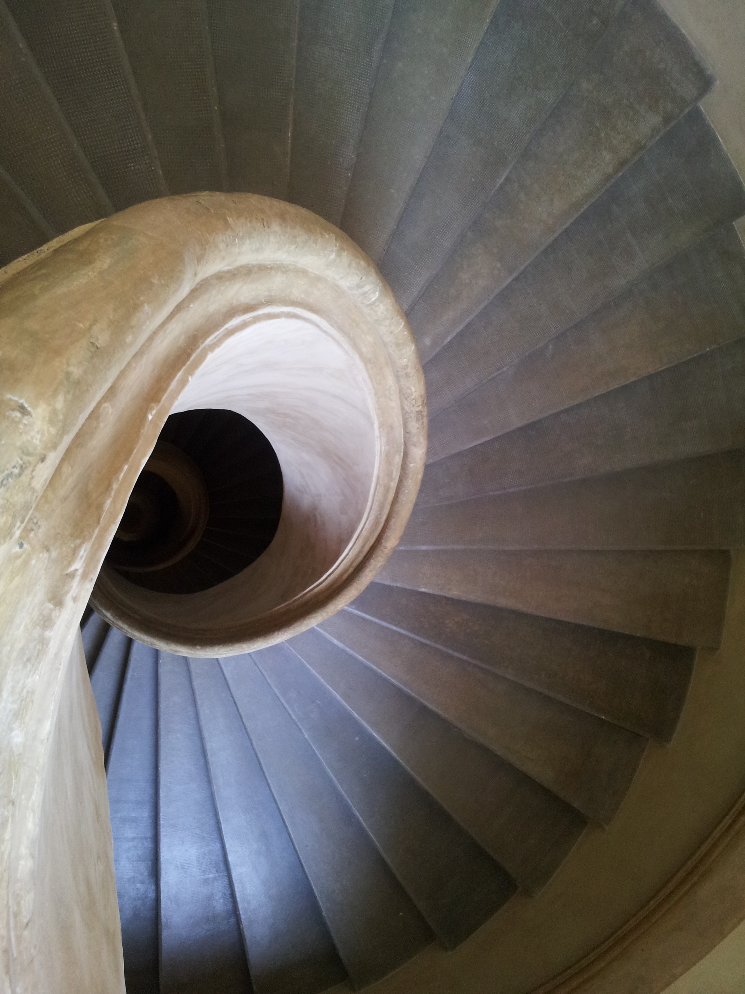 The Helicoidal staircase in Palazzo Martinetti-Rossi, Bologna, designed by Nicolò Donati, build in 1616